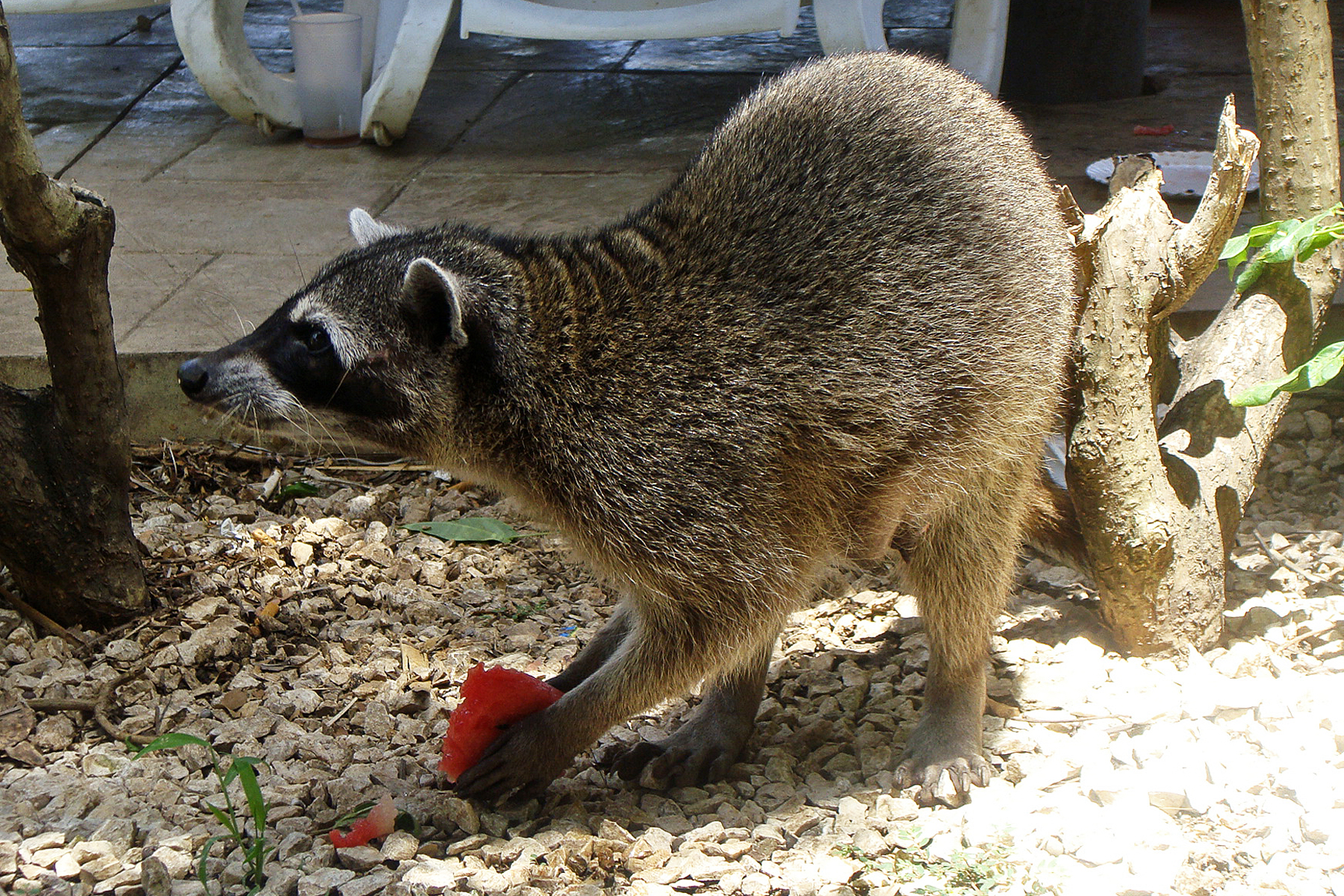 Crap-eating raccoon (Procyon cancrivorus) at Langosta beach, near Las Baulas National Park, Guanacaste, Costa Rica